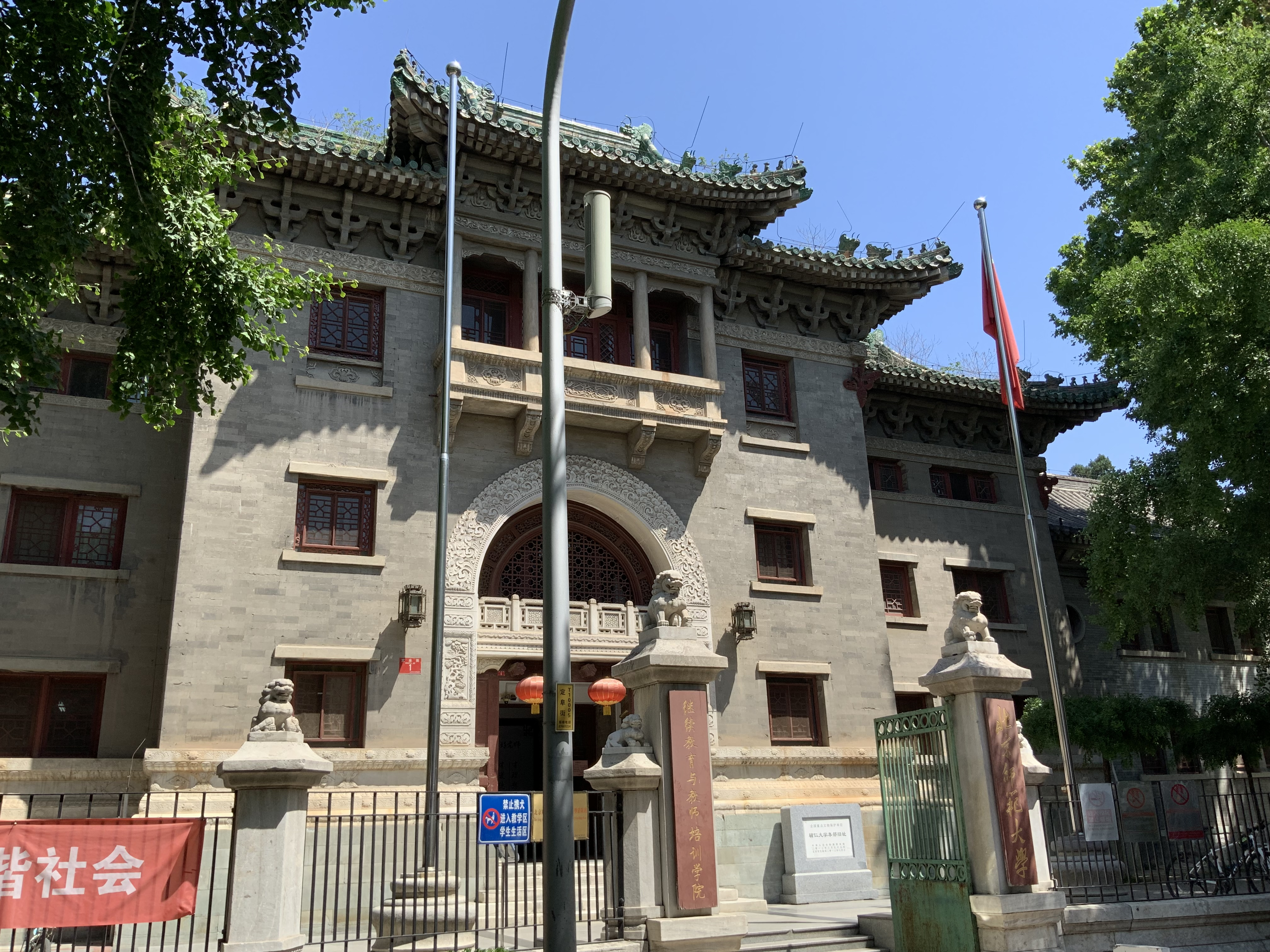 The old site of the Fu Jen Catholic University in Beijing 中文（中国大陆）: 辅仁大学旧址，北京